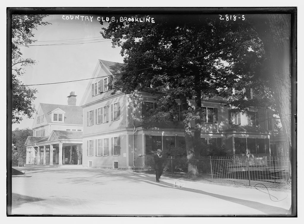 Bain News Service,, publisher. The Country Club - Brookline [between ca. 1910 and ca. 1915] 1 negative : glass ; 5 x 7 in. or smaller. Notes: Title from unverified data provided by the Bain News Service on the negatives or caption cards. Forms part of: George Grantham Bain Collection (Library of Congress). Subjects: Brookline Format: Glass negatives. Repository: Library of Congress, Prints and Photographs Division, Washington, D.C. 20540 USA, General information about the Bain Collection is available at Persistent URL: Call Number: LC-B2- 2818-5